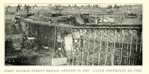 Monroe Street bridge, the first one built, 1889. Spokane, WA